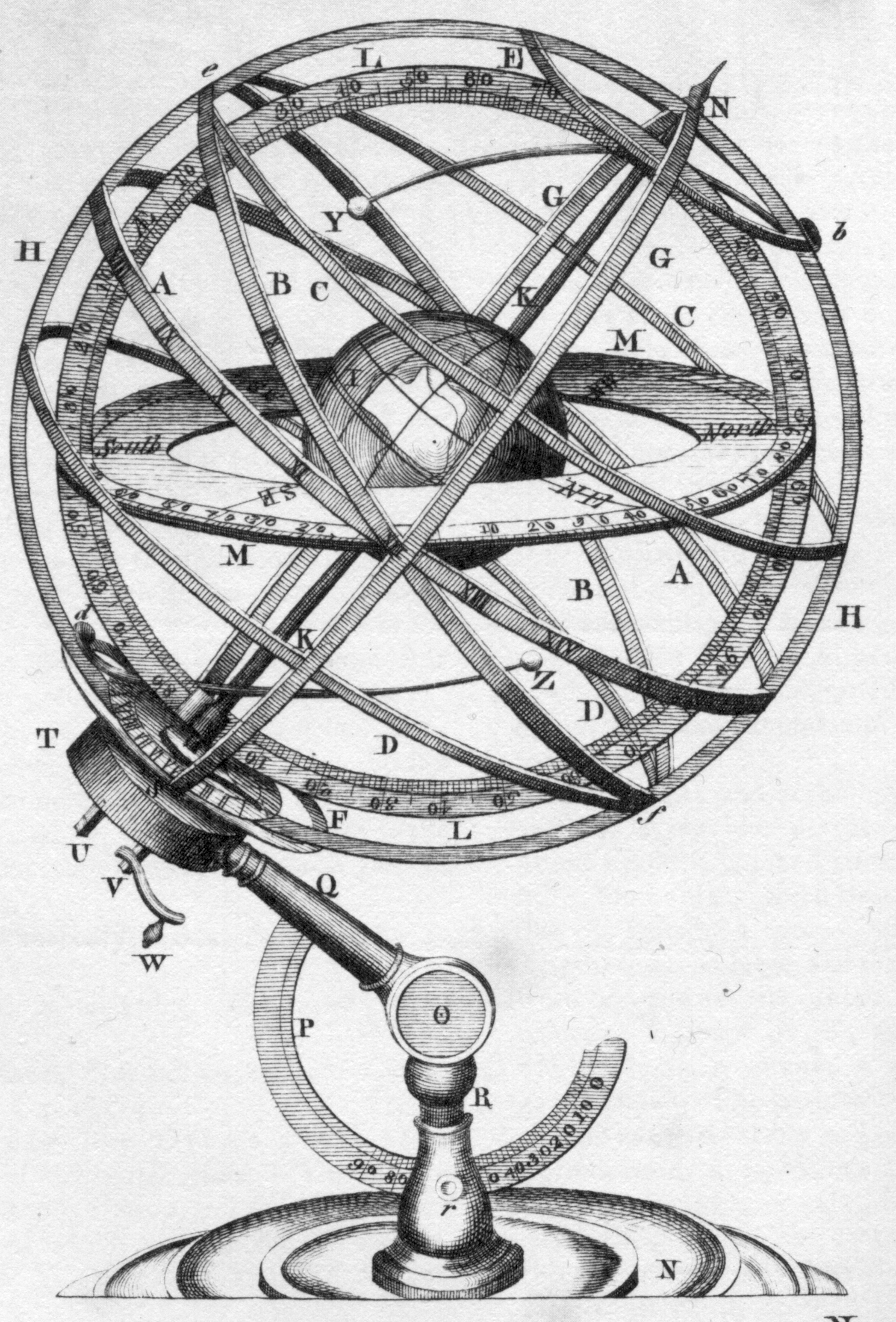 Armillary sphere, from Plate LXXXVII